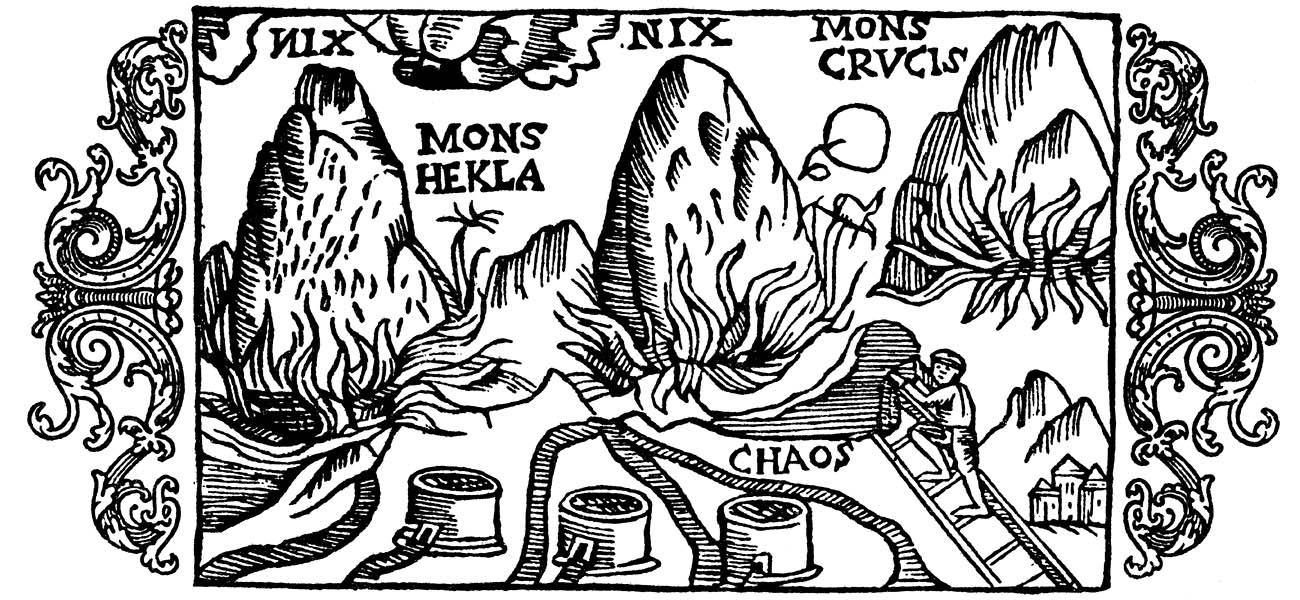 We see three volcanoes in Iceland: Hekla, Kreusberg (?) and Helgafjell. Below three hot sources.